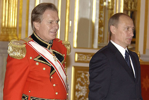 Moscow, the Kremlin. A ceremony to present credentials. Vladimir Putin and Ambassador of the Sovereign Order of the Knights of Malta Peter von Canisius.